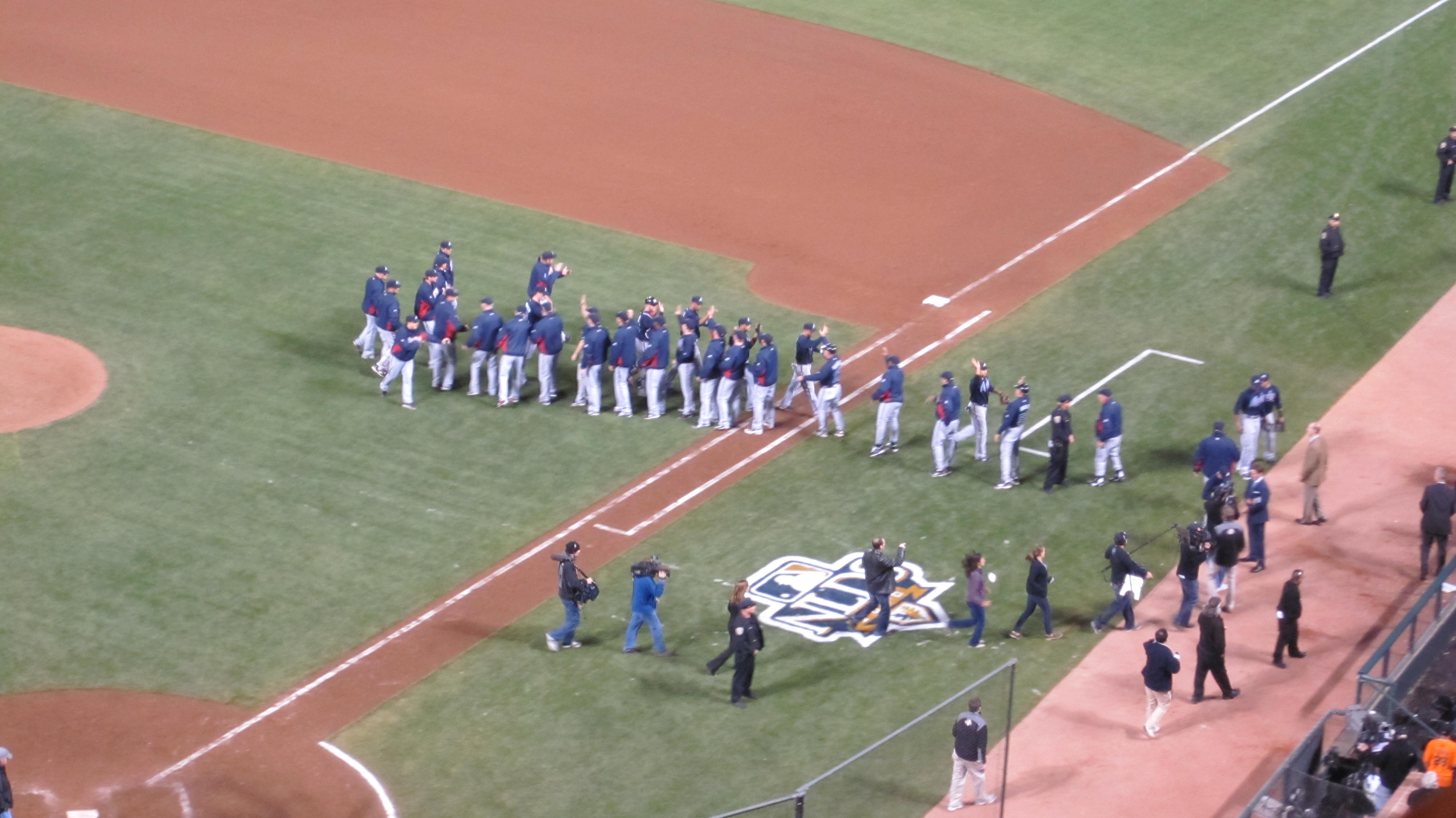 The Atlanta Braves celebrate winning Game 2 of the National League Division Series against the San Francisco Giants 5-4 in extra innings at AT&T Park.